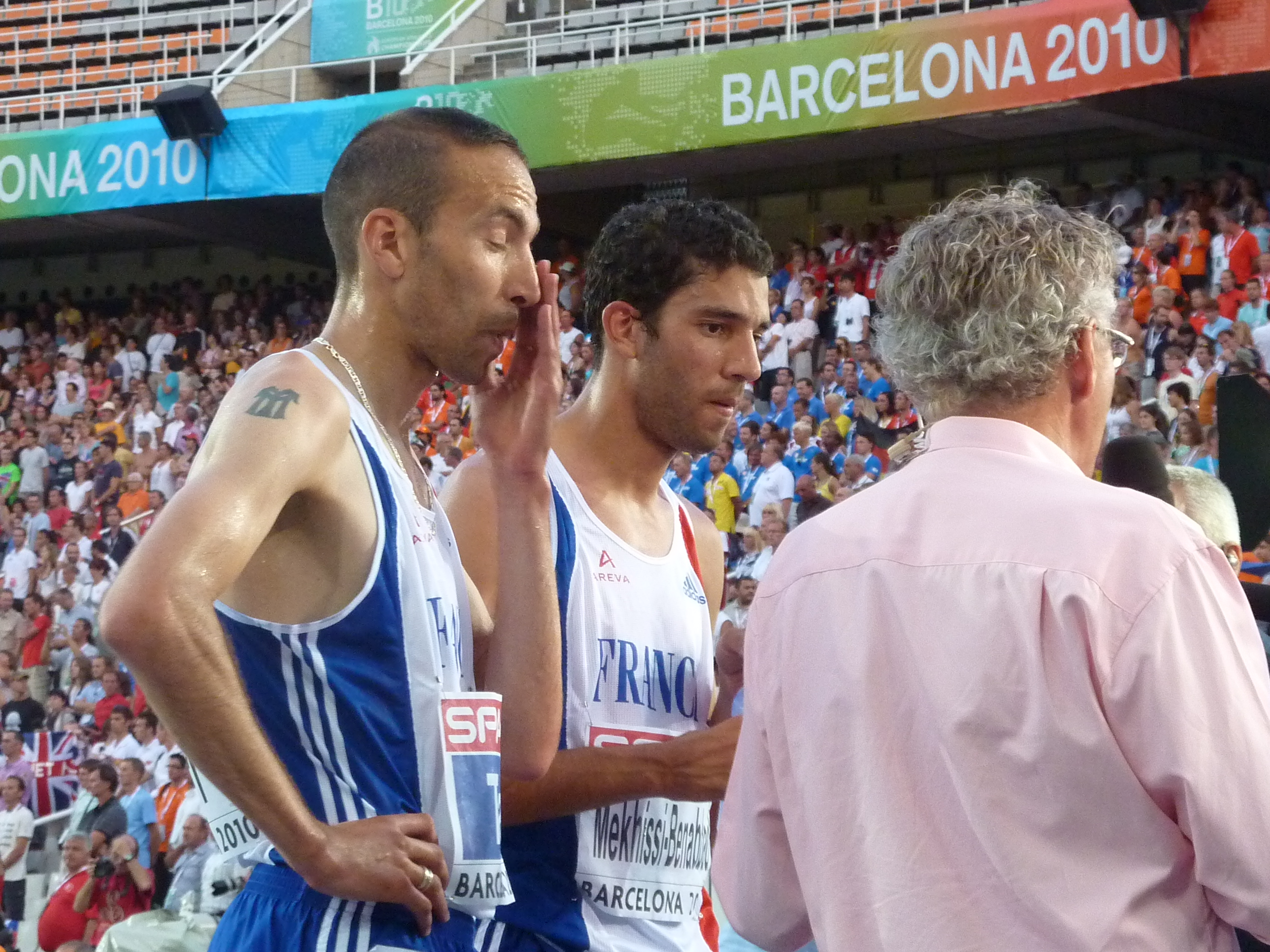 Bouabdellah Tahri, Mahiedine Mekhissi-Benabbad, during the 2010 European Championships in Athletics, Barcelona, 2010